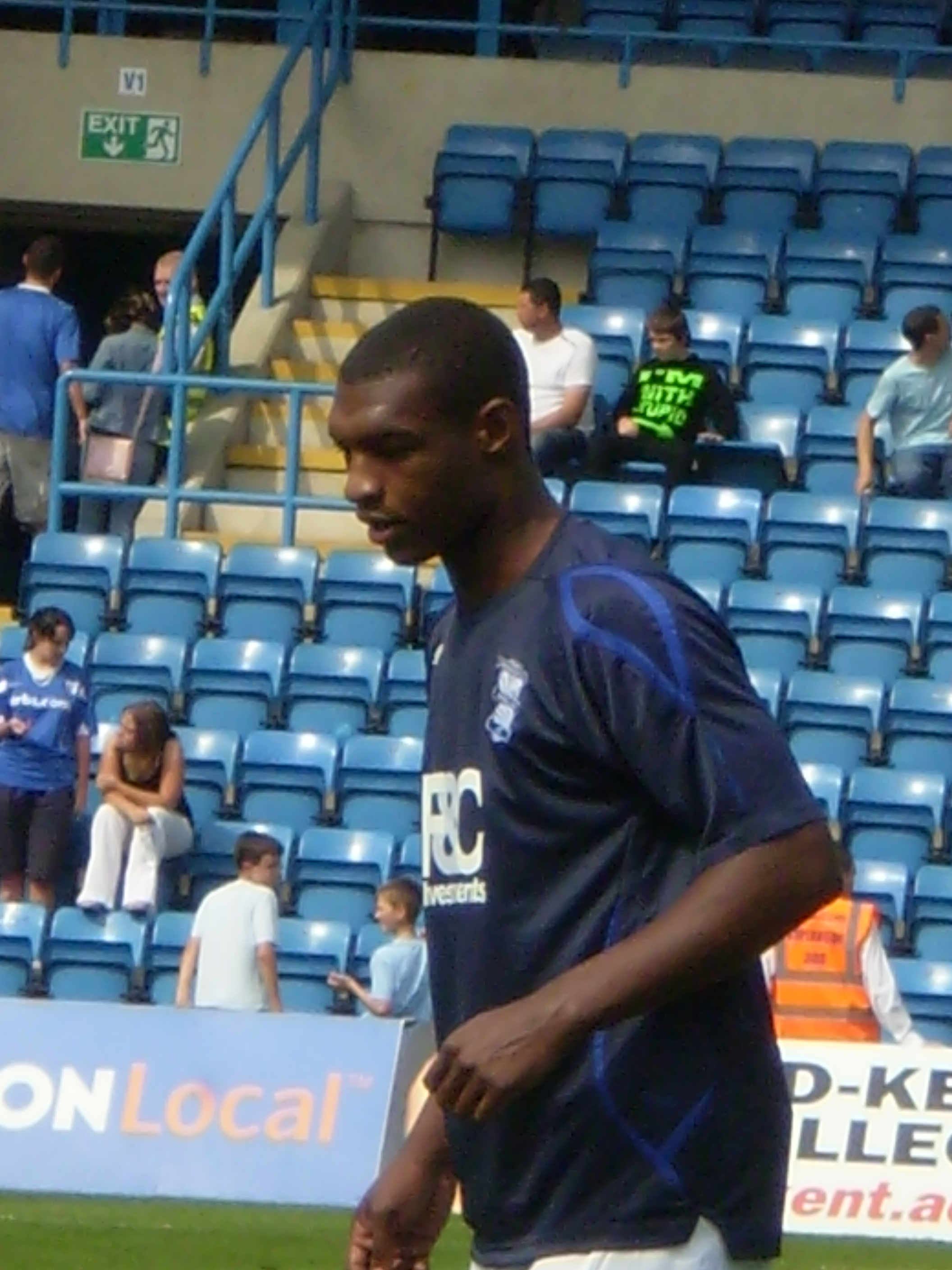 Krystian Pearce of Birmingham City F.C. warms up at half time in a friendly match against Gillingham F.C. at the Priestfield Stadium